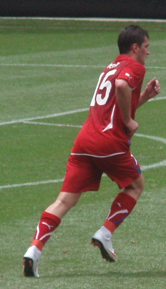 Martin Fenin Playing For Czech National Team